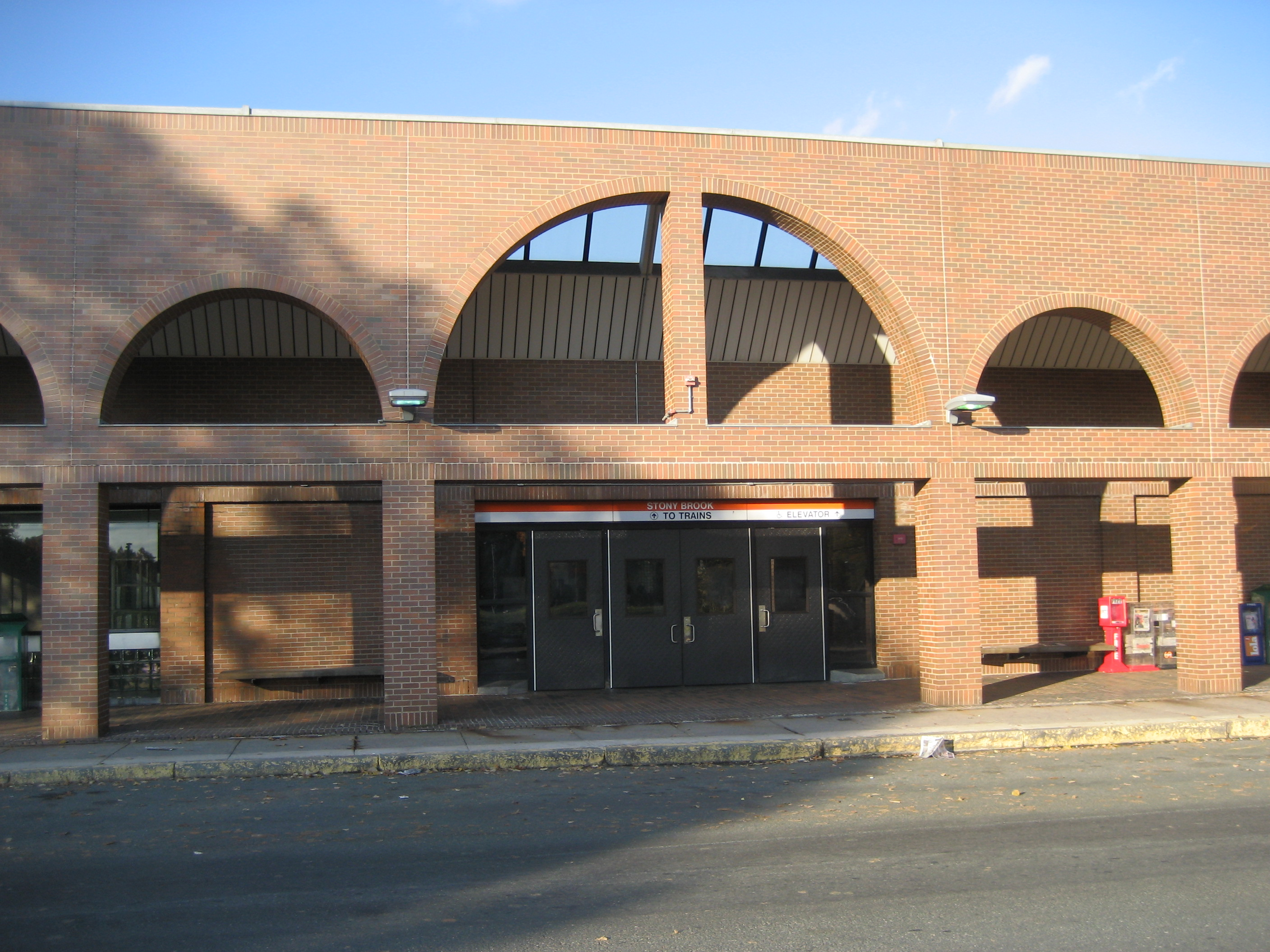 Stony Brook Station on the MBTA Orange Line in Jamaica Plain